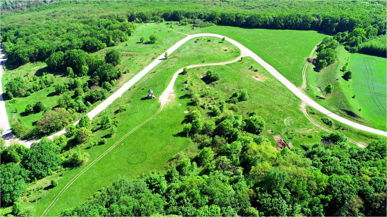 Burial field Barvinkova Hora. Orthophoto.